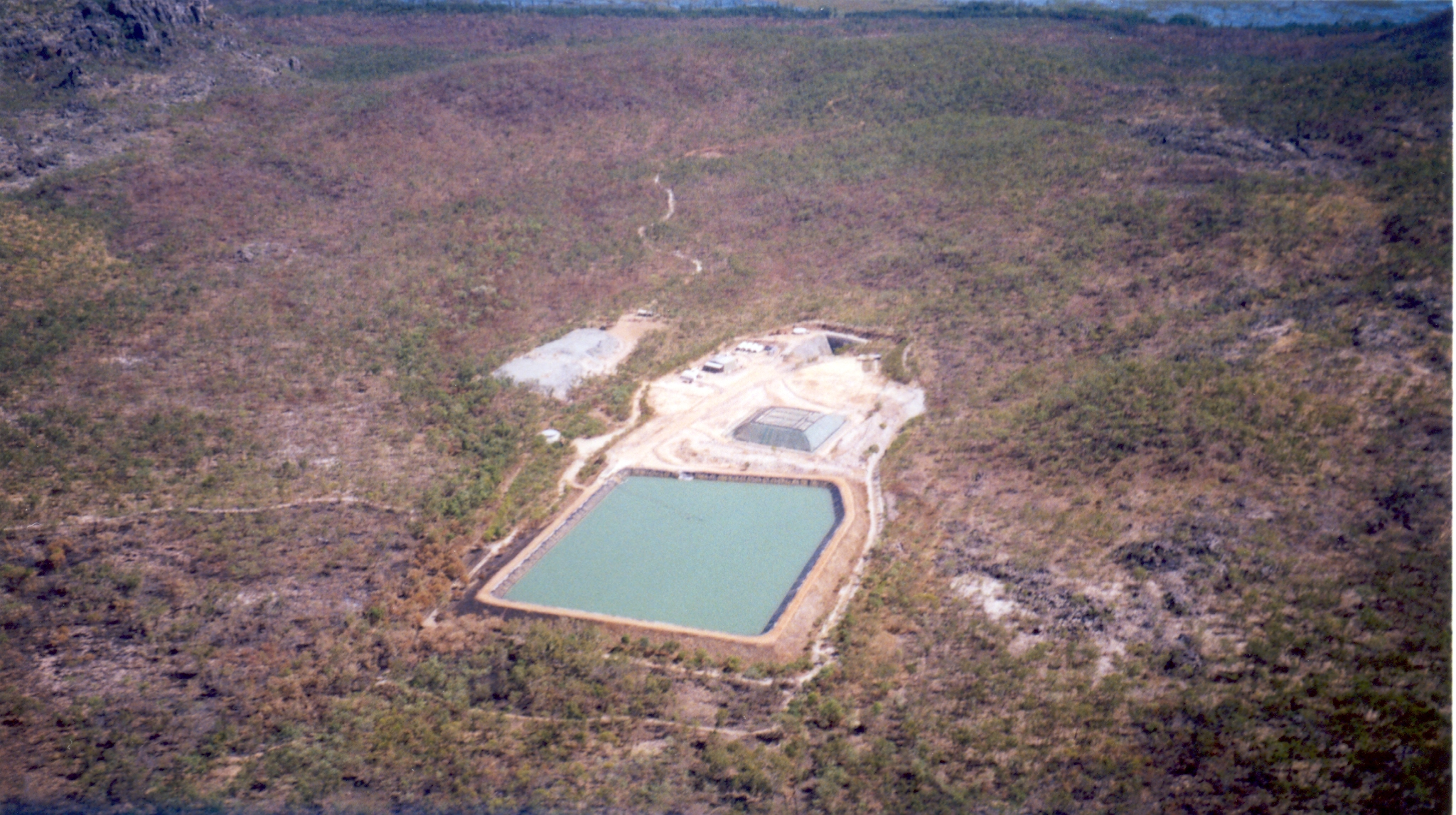 Aerial view of the Ranger 3 Uranium mining site at the Ranger Uranium Mine in Kakadu National Parken